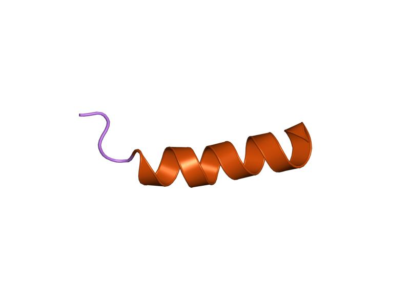 Cartoon representation of the molecular structure of protein registered with 1fw5 code.